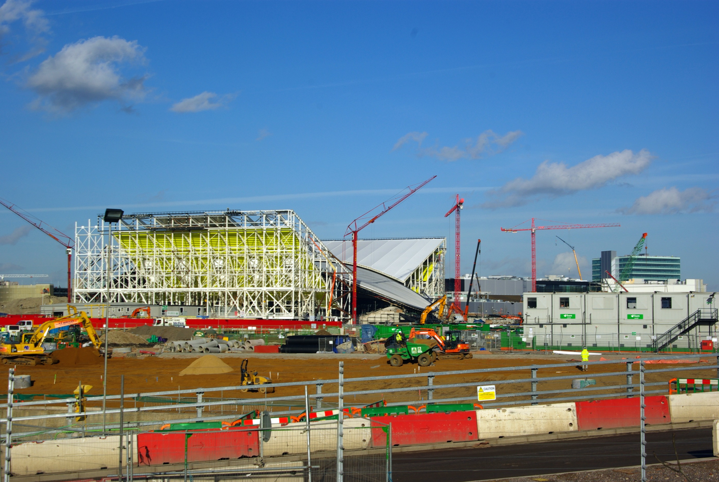 The 2012 Olympics aquatics centre under construction (February 2011), near to Bow, Tower Hamlets, Great Britain. Link